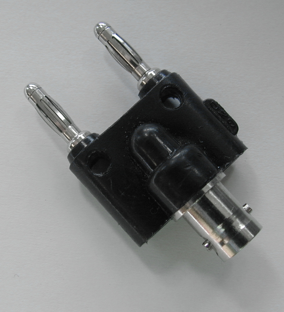 Pomona adapter between female BNC connector and 4 mm (full-sized) banana plugs.